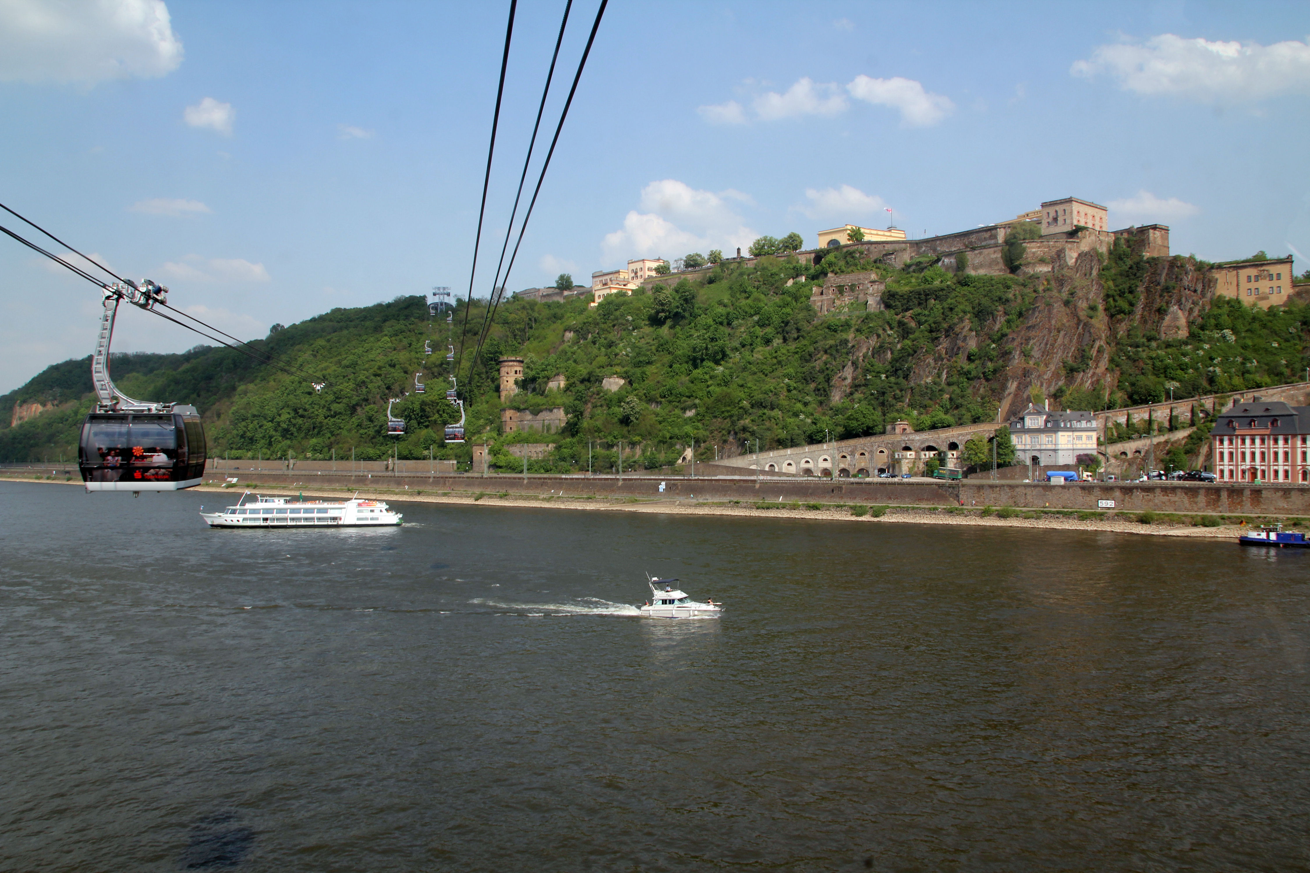 Koblenz Cable Car